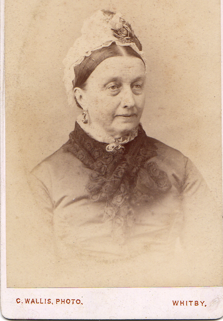 Photograph of Alice Smith (born c. 1817 Whitby, North Riding of Yorkshire died 1893). Mother of Rev Thomas Thistle (1853 -1936) and Hannah Elizabeth Vowles nee Thistle (1842-1903)